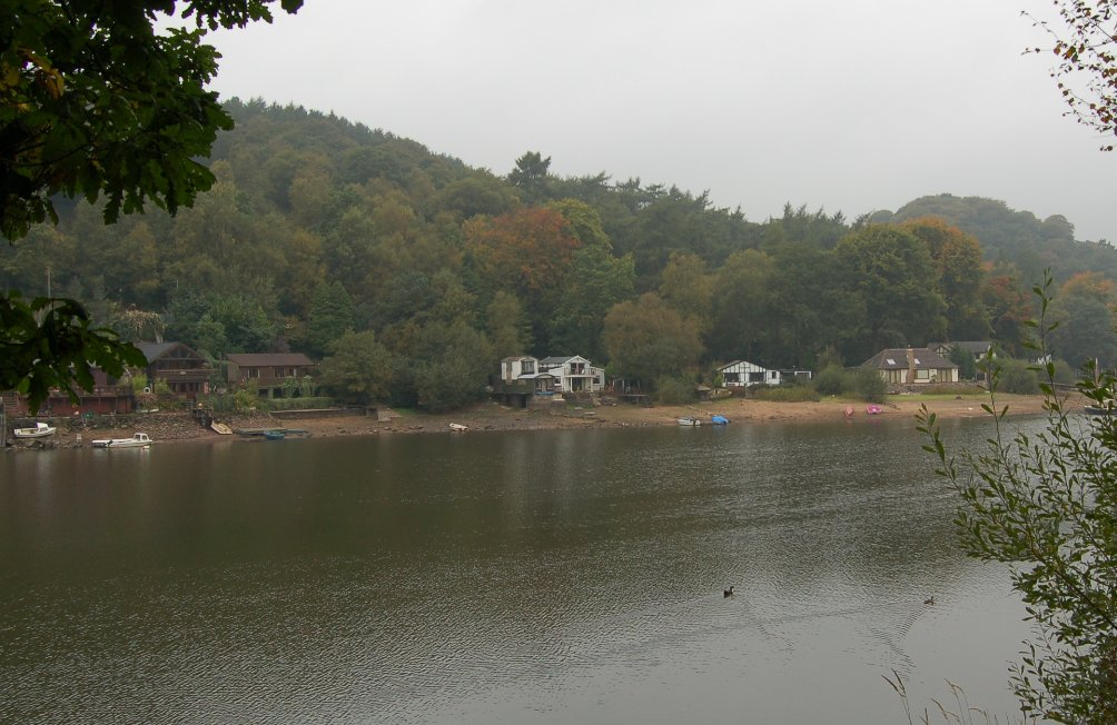 Houses at Rudyard Lake